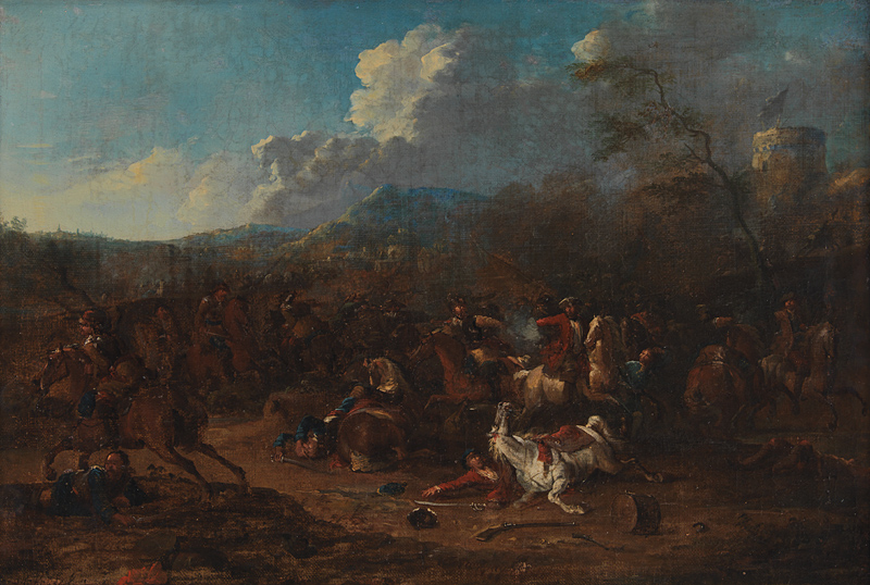 Karel Breydel, Cavalry skirmish at a fortress, Oil on canvas, 40 x 58 cm, National Gallery of Denmark